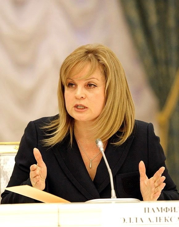 Ella Pamfilova, a Russian politician.